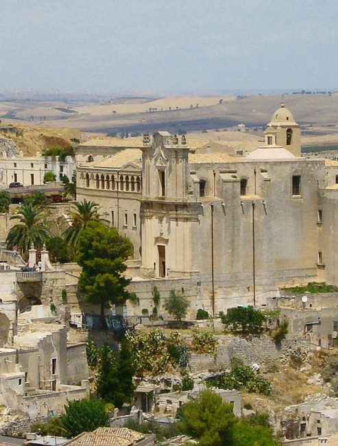 Matera, Chiesa San Agostino picture taken by user:Idéfix, july 2003